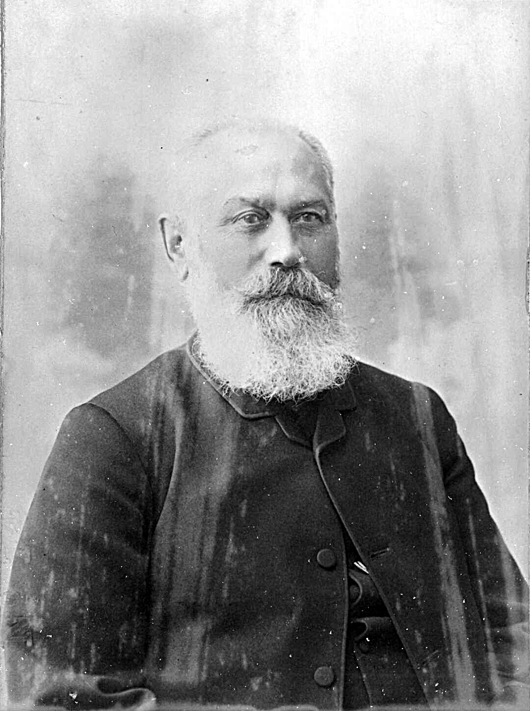 John White, britisch born New Zealand Ethnographer (1826–1891)